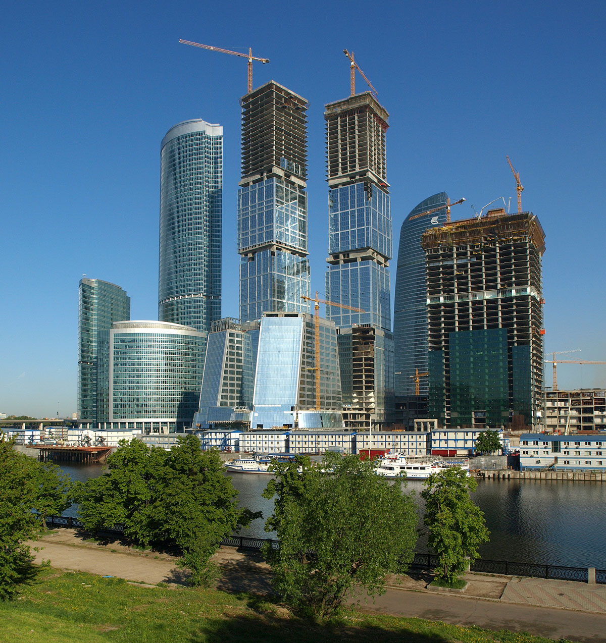 Moscow City under construction. 16.05.2008